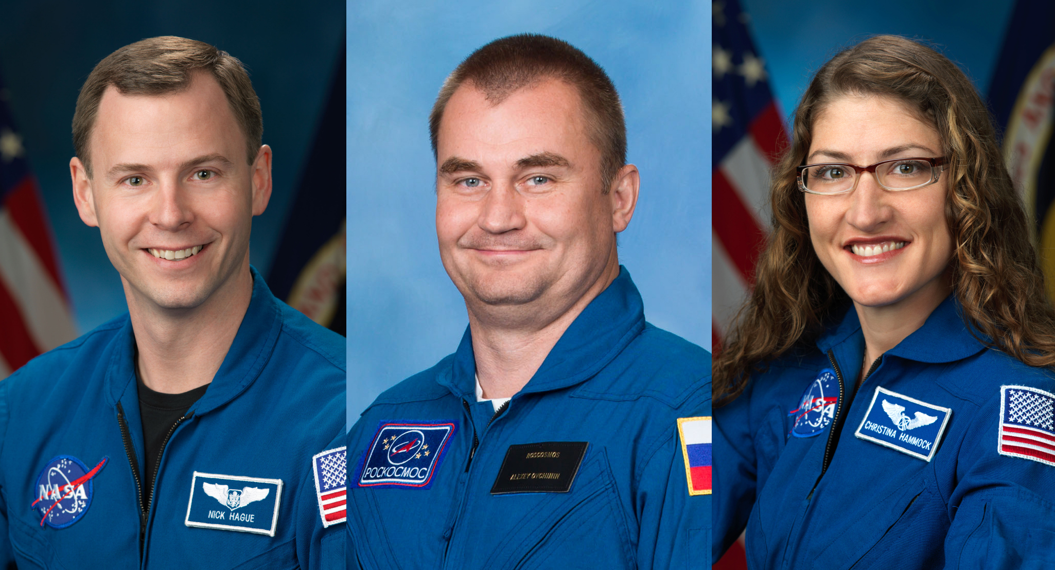 NASA astronauts Nick Hague (left) and Christina Hammock Koch (right) and Alexey Ovchinin of the Russian space agency Roscosmos (center) are scheduled to launch March 1, 2019, from the Baikonour Cosmodrome in Kazakhstan for a mission to the International Space Station as members of Expeditions 59 and 60.